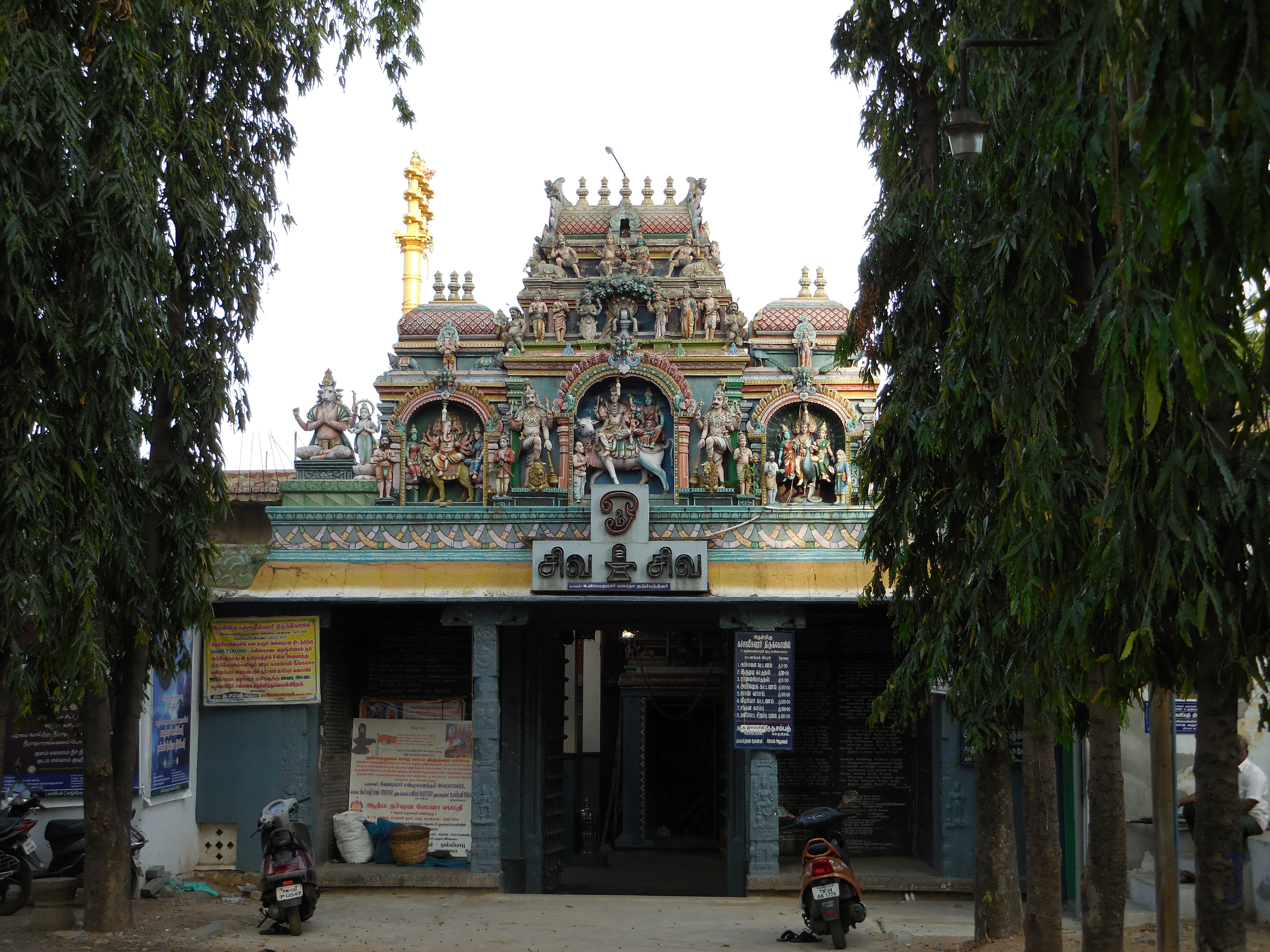 Facade of Kacchaaleeshwarar Koil, Chennai, taken on 21-Jun-2014 at 6:49 am